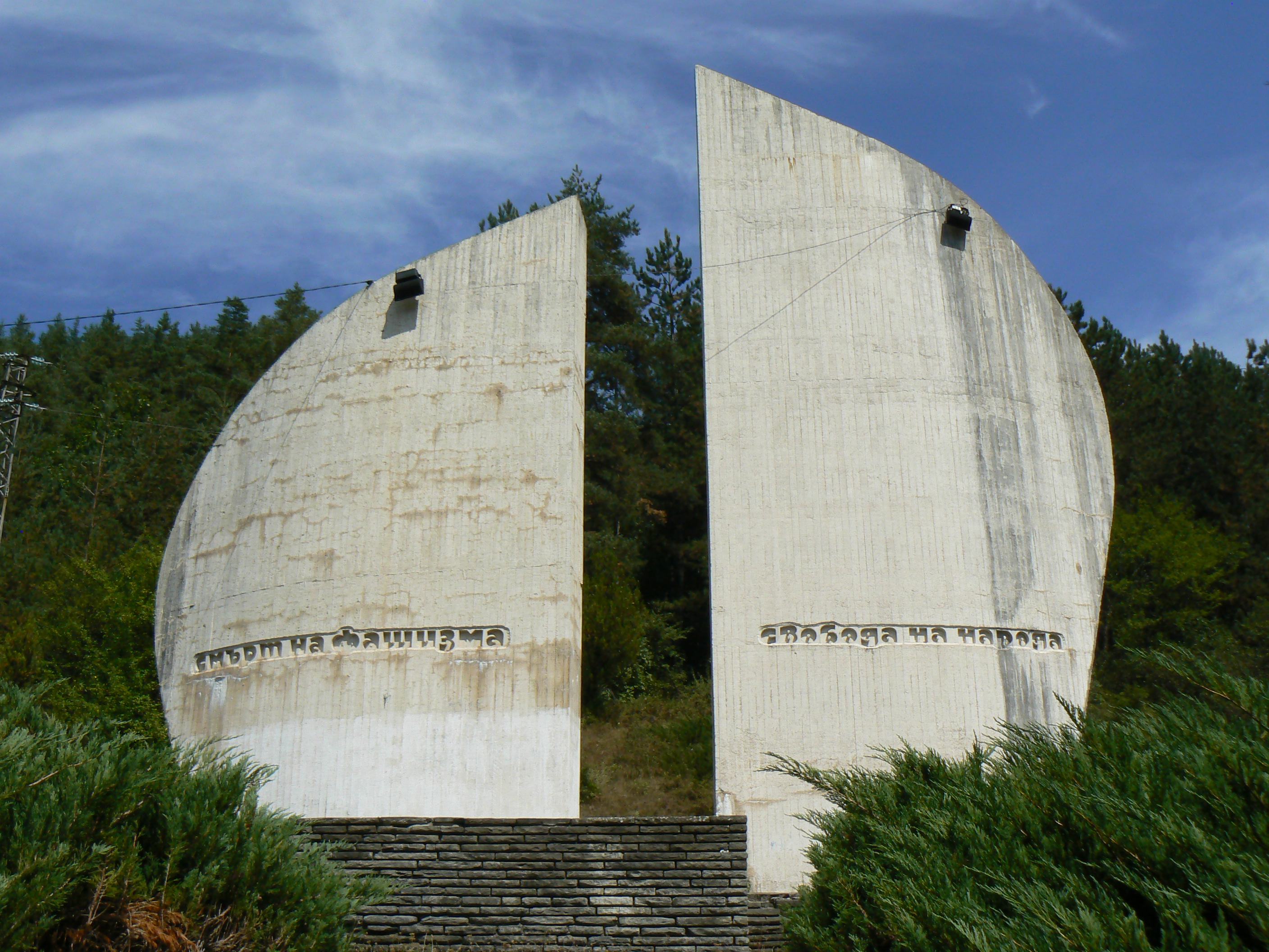 Antifascists memorial in village Batulia, Bulgaria